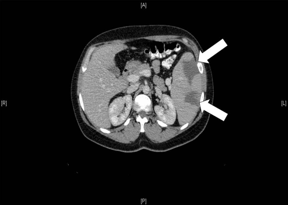 Two large splenic infarcts, as demonstrated on an abdominal CT scan (white arrows) in a 36-year-old Caucasian woman with acute cytomegalovirus infection. The patient was also found to be heterozygous for the Factor V Leiden mutation.